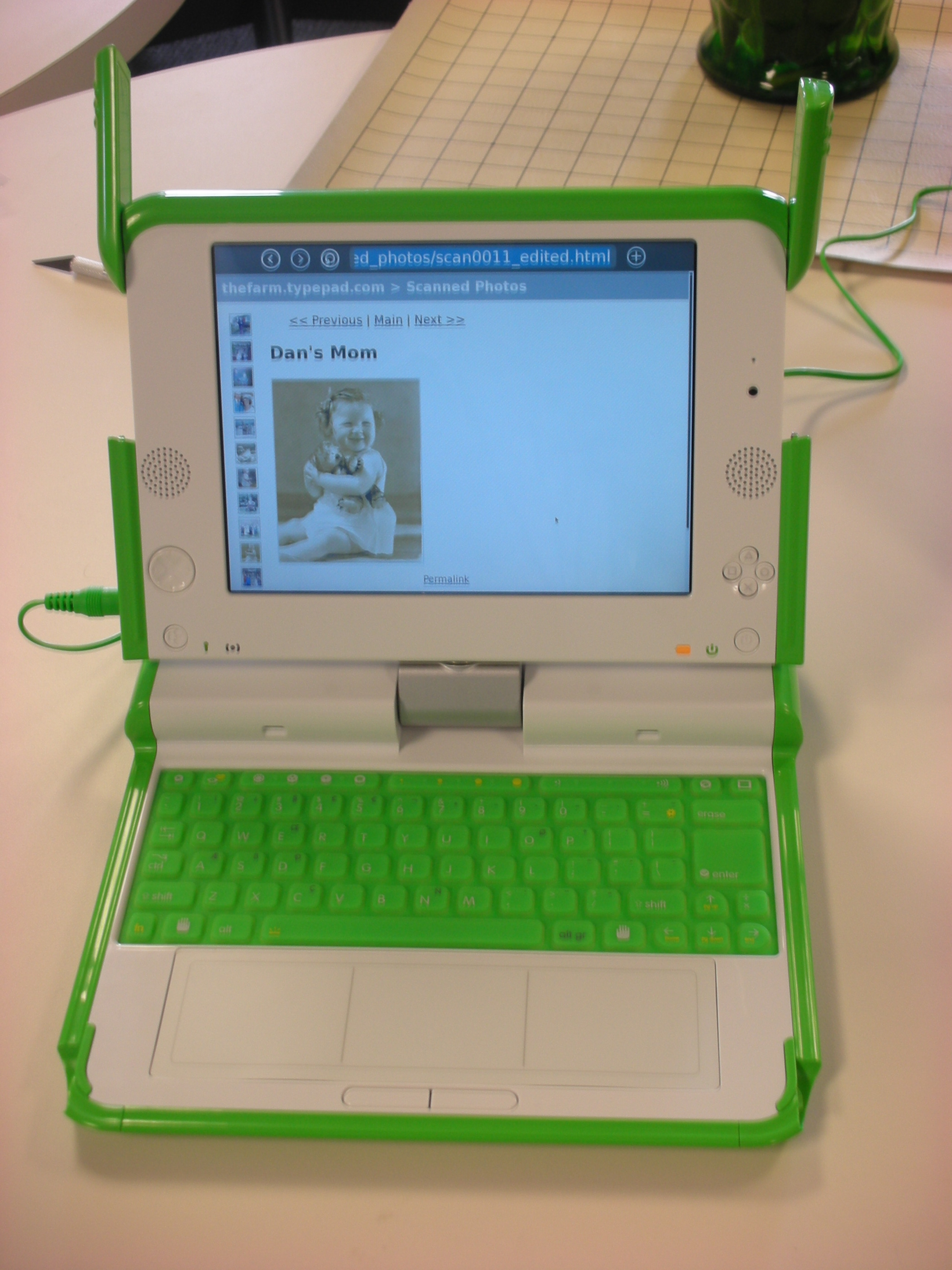 One of the first OLPC machines in Cambridge, MA. Screen in color mode.